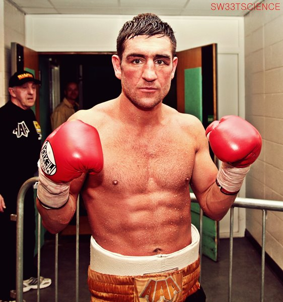 Image of Alex Arthur after his fight on Saturday 14th April 2012.